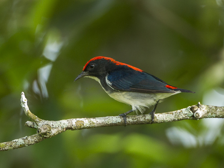 Scarlet-backed Flowerpecker - Kang Kra Chan - Thailand_S4E5437